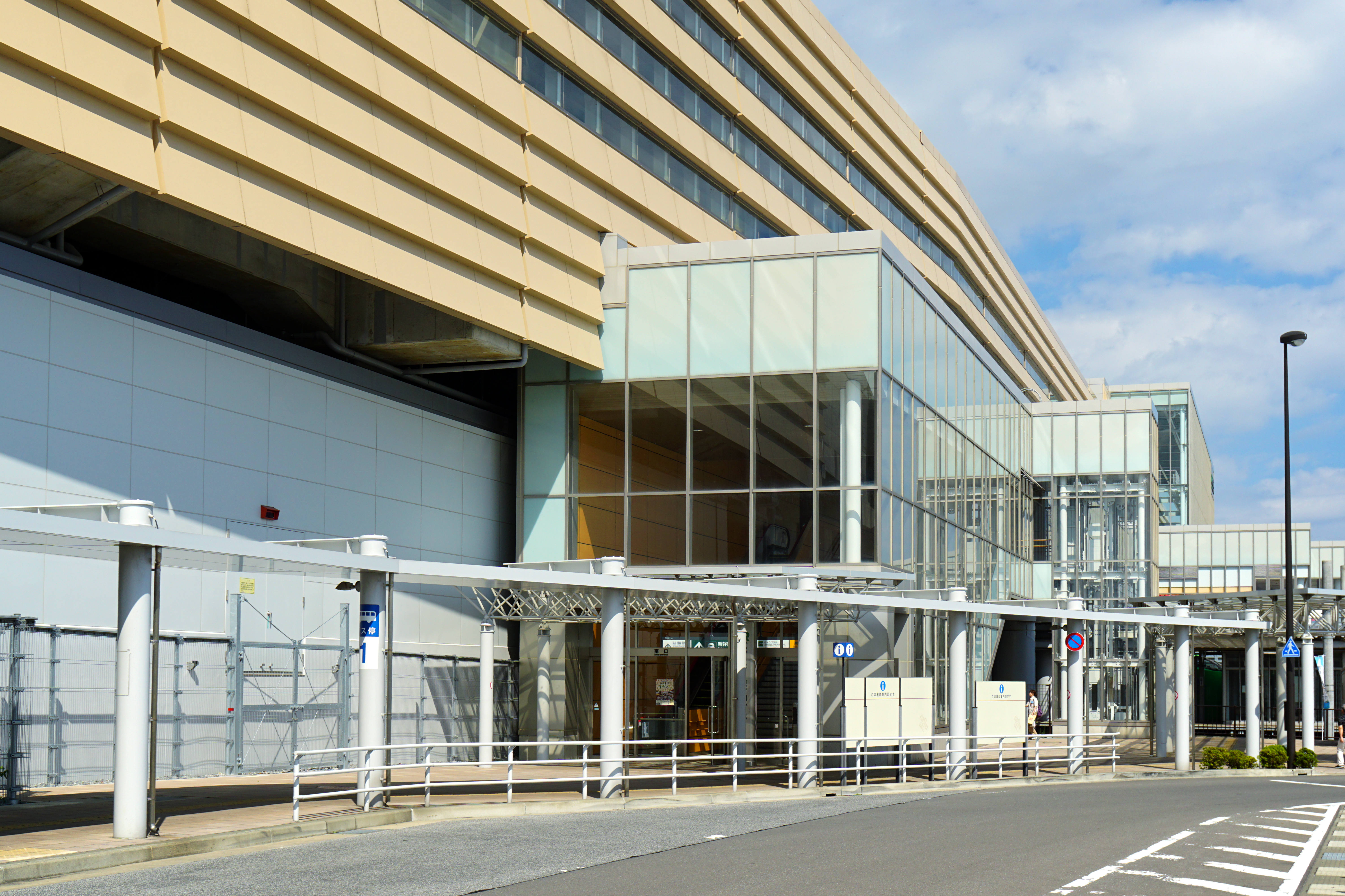 Shin-Aomori Station in Aomori, Aomori prefecture, Japan.